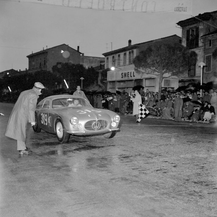 1956 Maserati A6G 2000 Zagato Coupe s/n 2124 at Ravenna [1] during Mille Miglia on 29 April 1956. Entry #319 was driven by Luigi Taramazzo and dit not finish.[2]